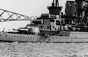 Photograph showing 2 aft triple 4-inch gun mountings of British battlecruiser HMS Repulse. In the Firth of Forth, Scotland, circa 1916-17, with the Forth Bridge in the background. This is a clip from File:Repulse-2.jpg